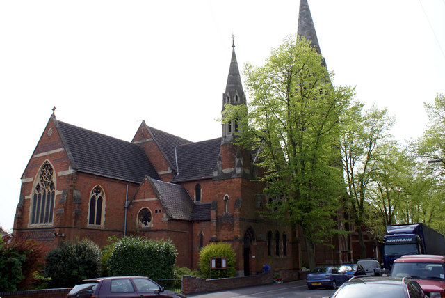 St Paul's - no, not that one St Paul's church in Leamington Spa.